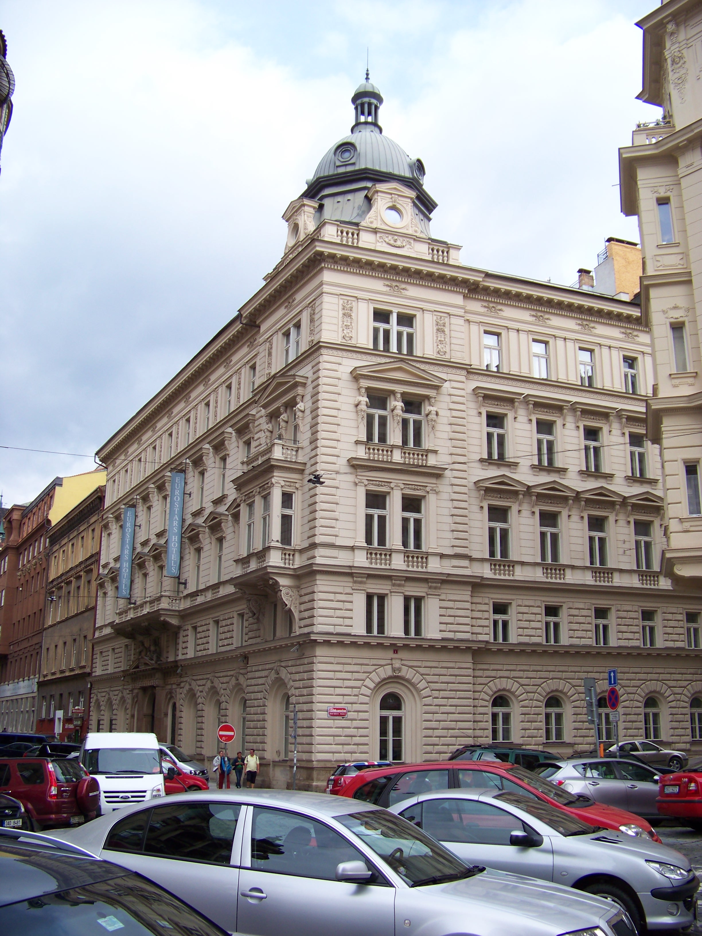 Prague-New Town. Náplavní 1618/6, Záhořanského 1618/1.